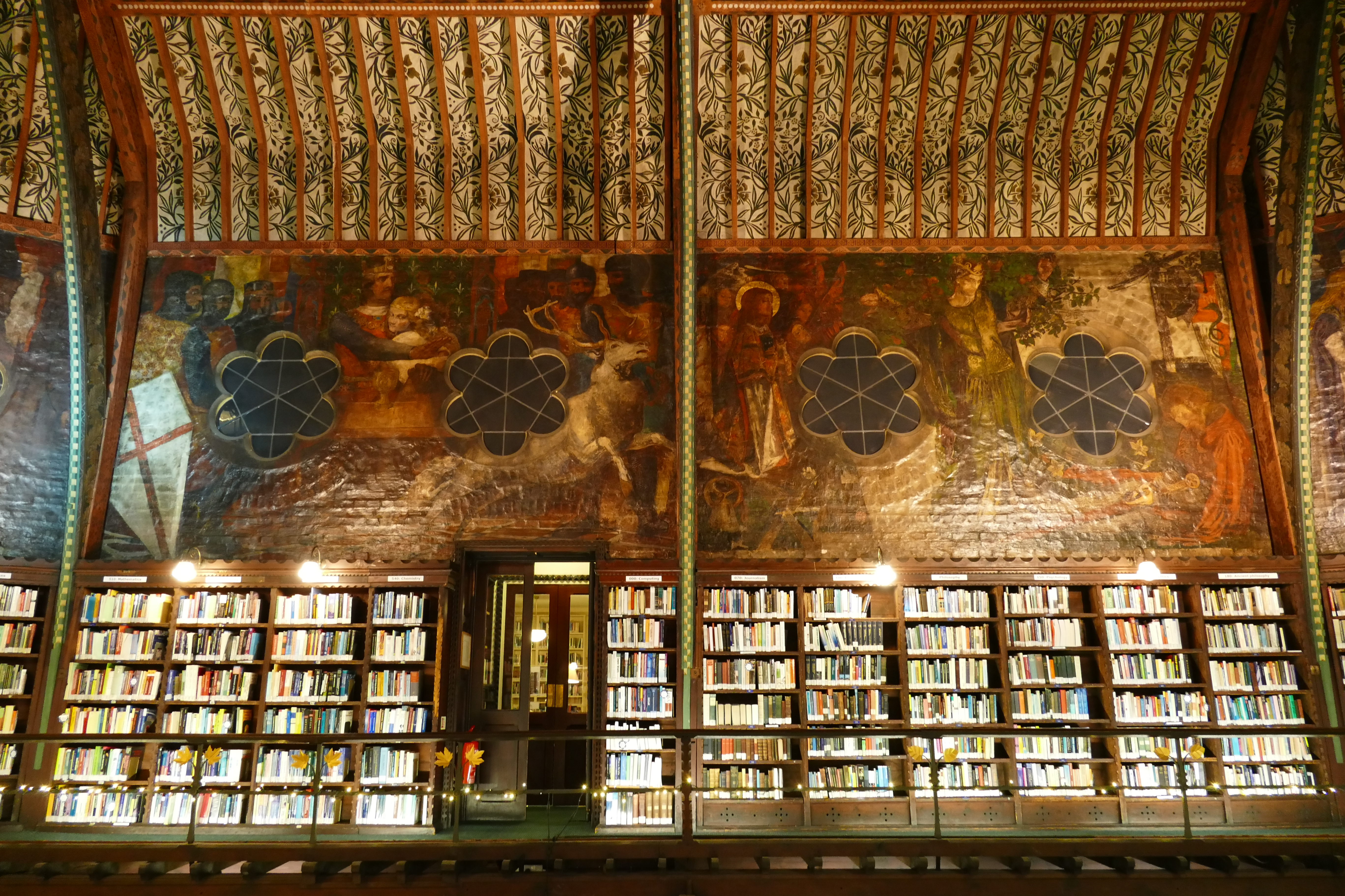 Right: Rossetti's unfinished depiction of Sir Lancelot's Vision of the Holy Grail. Left: William Riviere's The Marriage of Arthur and Guinevere.